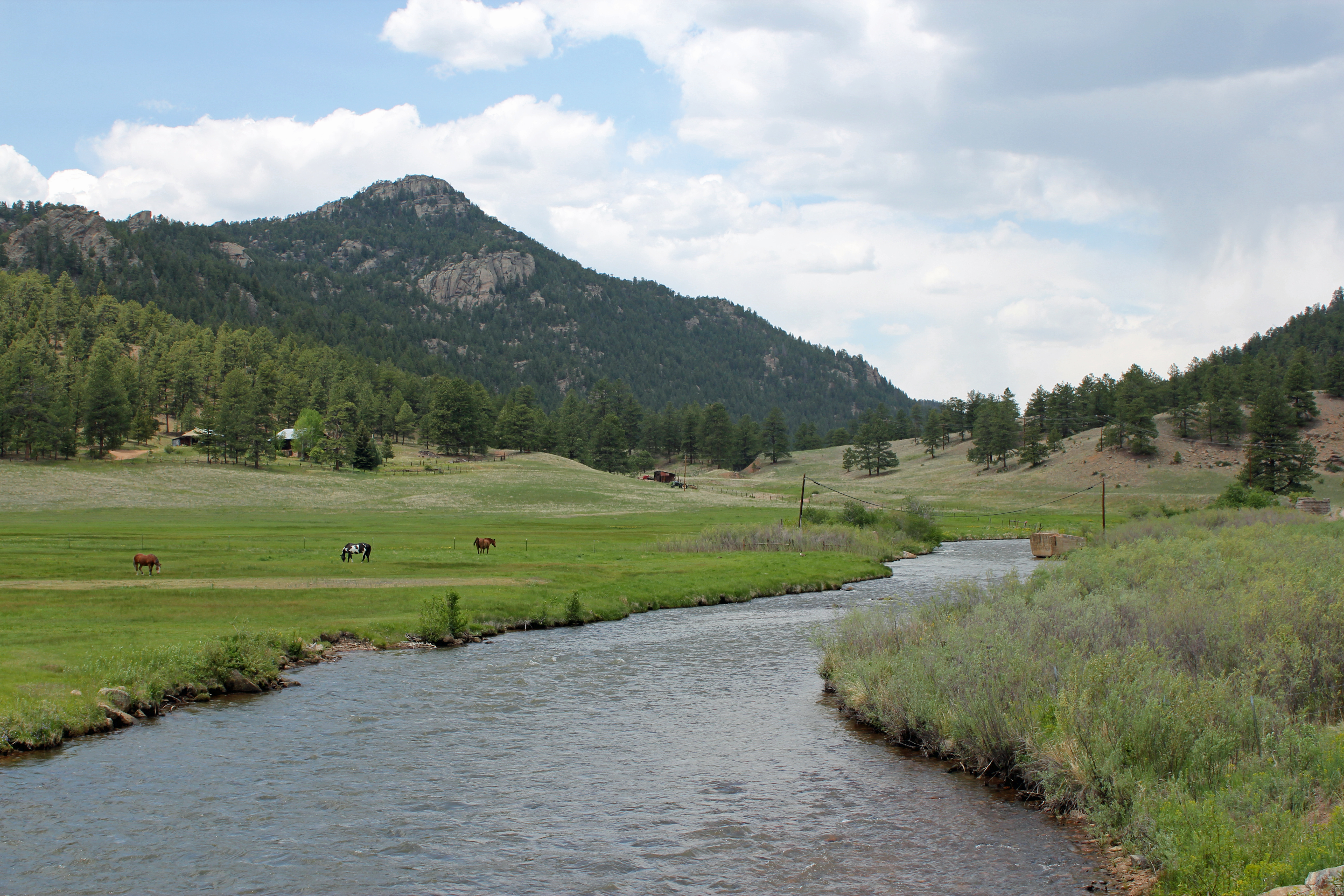 The North Fork South Platte River, in Buffalo Creek, Jefferson County, Colorado. Some of the land in the picture is part of the North Fork Historic District. Mount Anne is the mountain seen in the background.